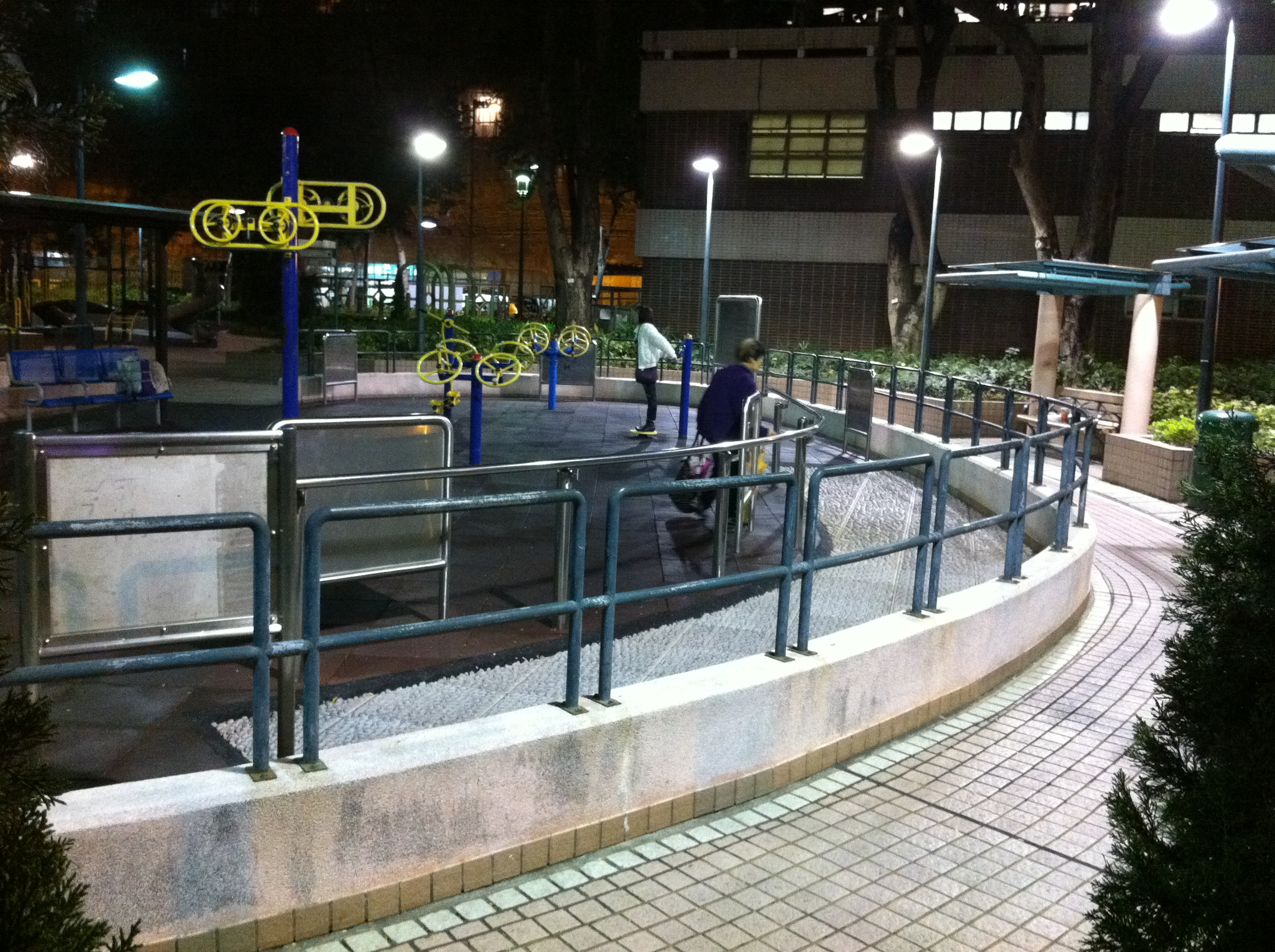 Anchor Street at night, Tai Kok Tsui, Hong Kong